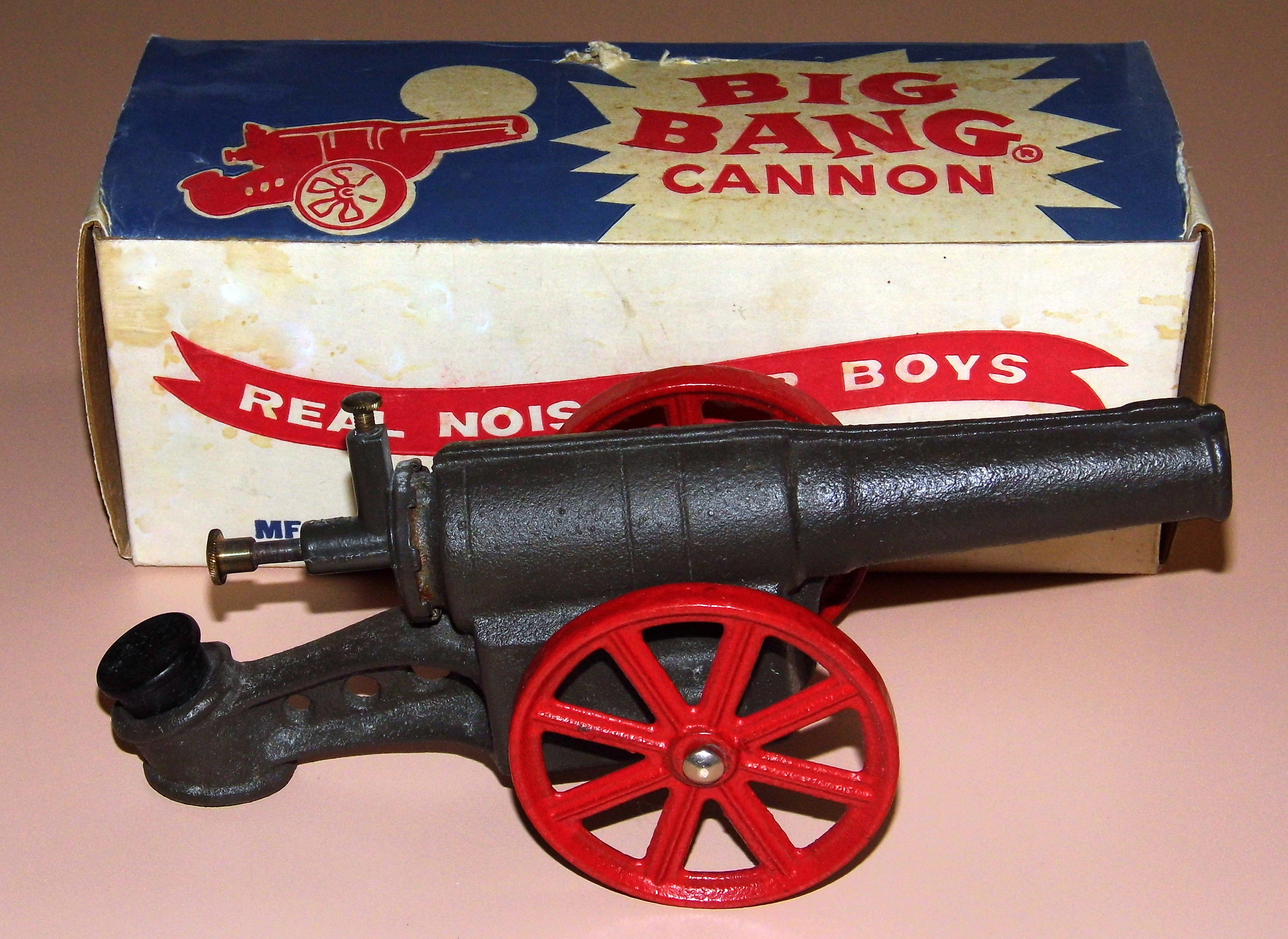 The "Big Bang Cannon", a calcium carbide cannon made in the 1920s.